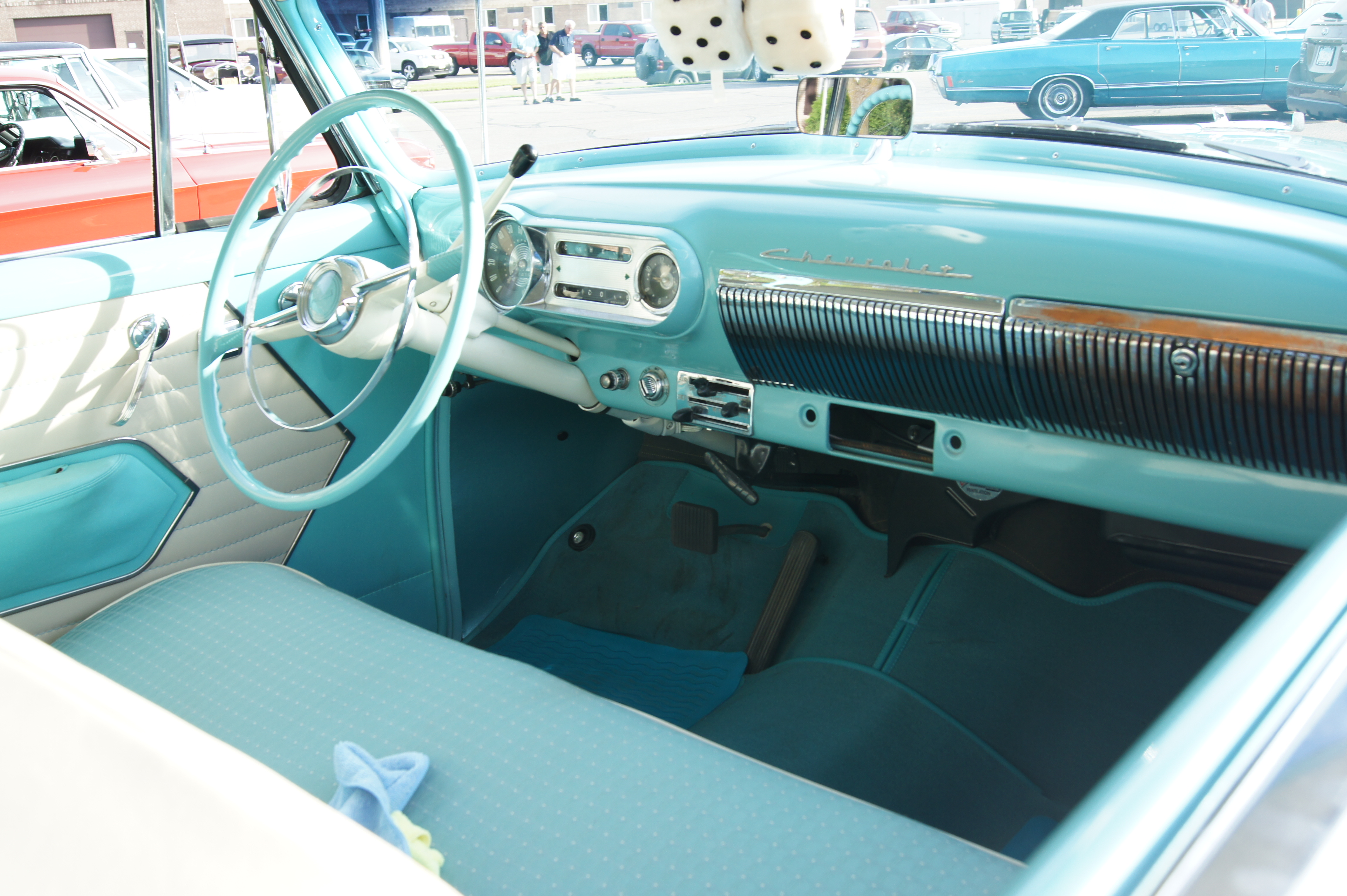 Youth fundraiser for Calvary Lutheran Church